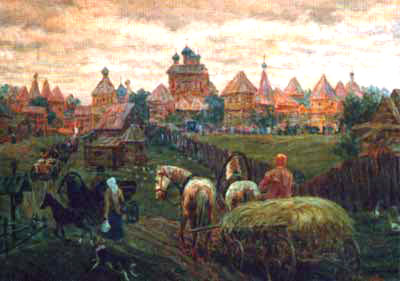 The Blagoveshchensk cathedral (Voronezh)